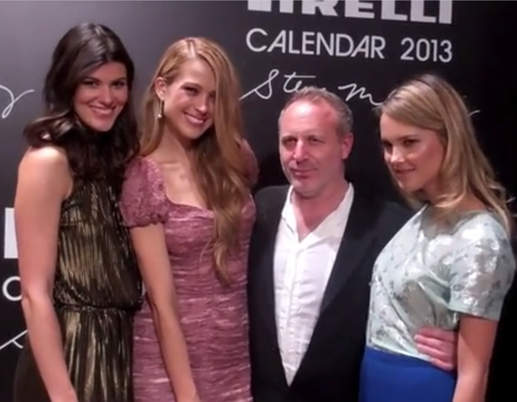 Behind the scenes at the Pirelli Calendar 2013, left to right, Summer Rayne Oakes, Petra Němcová, Stuart Chapman, Kyleigh Kuhn. A fun moment with Stuart, the talented cinematographer for Pirelli's 2013 Calendar, and Next Models Petra Nemcova, Summer Rayne Oakes and Kyleigh Kuhn.